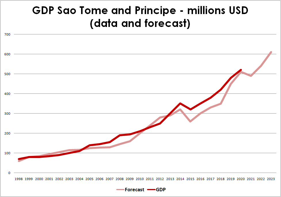 GDP Sao Tome and Principe - millions USD (data and forecast)